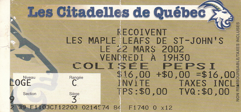 Ticket for a game between the Quebec Citadelles against the St. John's Maple Leafs of the American hockey league on March 22, 2002. The result of the game was a 3-3 tie.